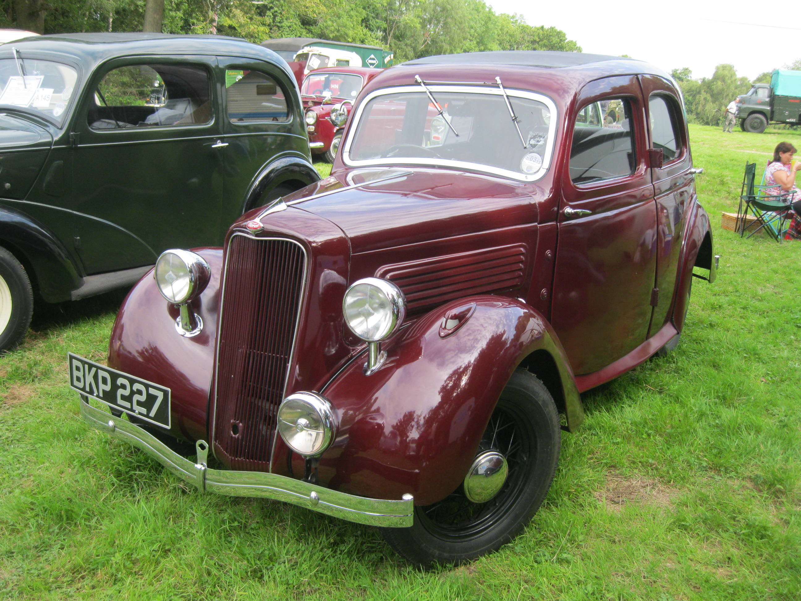 Great example of a 1930s Ford saloon - spotted at the Bluebell Railway's Transport Weekend at Horsted Keynes Station in August 2012.